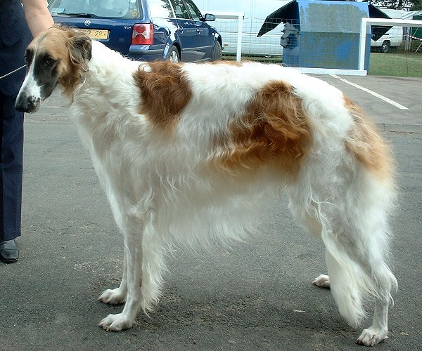 Jamarqui Axesunamoon owned by Miss Alma Oakley. Photo by sannse at the City of Birmingham Championship Dog Show, 29th August 2003 'External link Слика:Borzoi 600.jpg